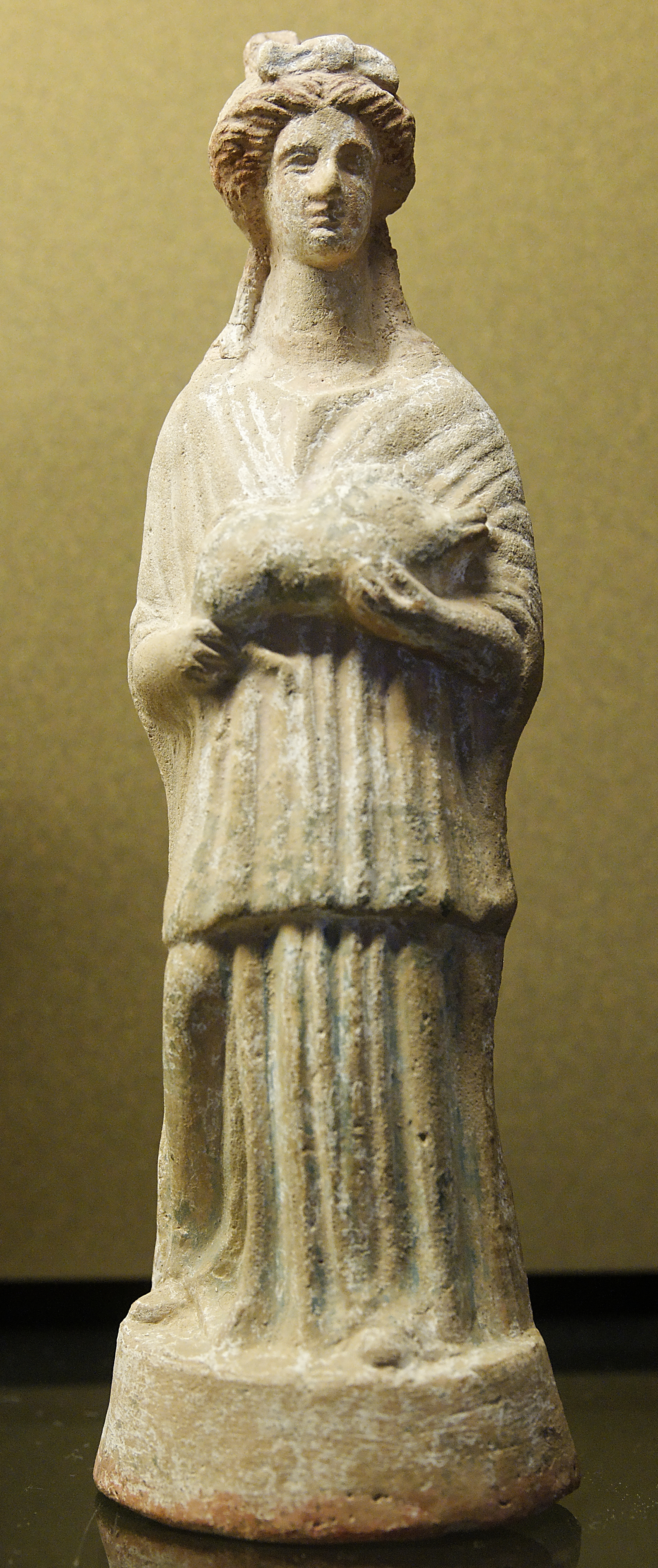 Female piglet carrier, taking part in the worship of Demeter and Persephone. Terracotta figurine, made in Tanagra, ca.400–350 BC. Found in Tanagra.